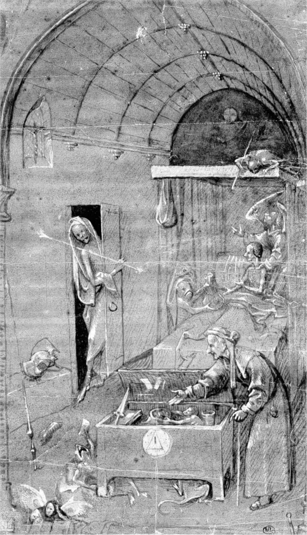 Front of a two-sided drawing. For the reverse, see File:After Jheronimus Bosch 029 verso 01.jpg.